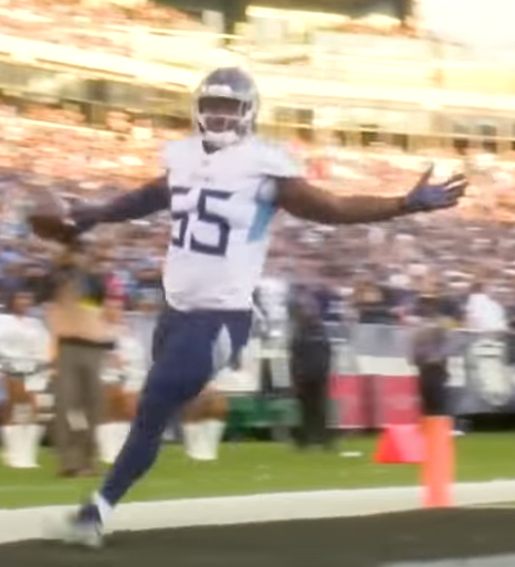 Jayon Brown 2019. Image from video Jayon Brown Mic'd Up vs. Raiders (Week 14) | Tennessee Titans, ~ 02:12